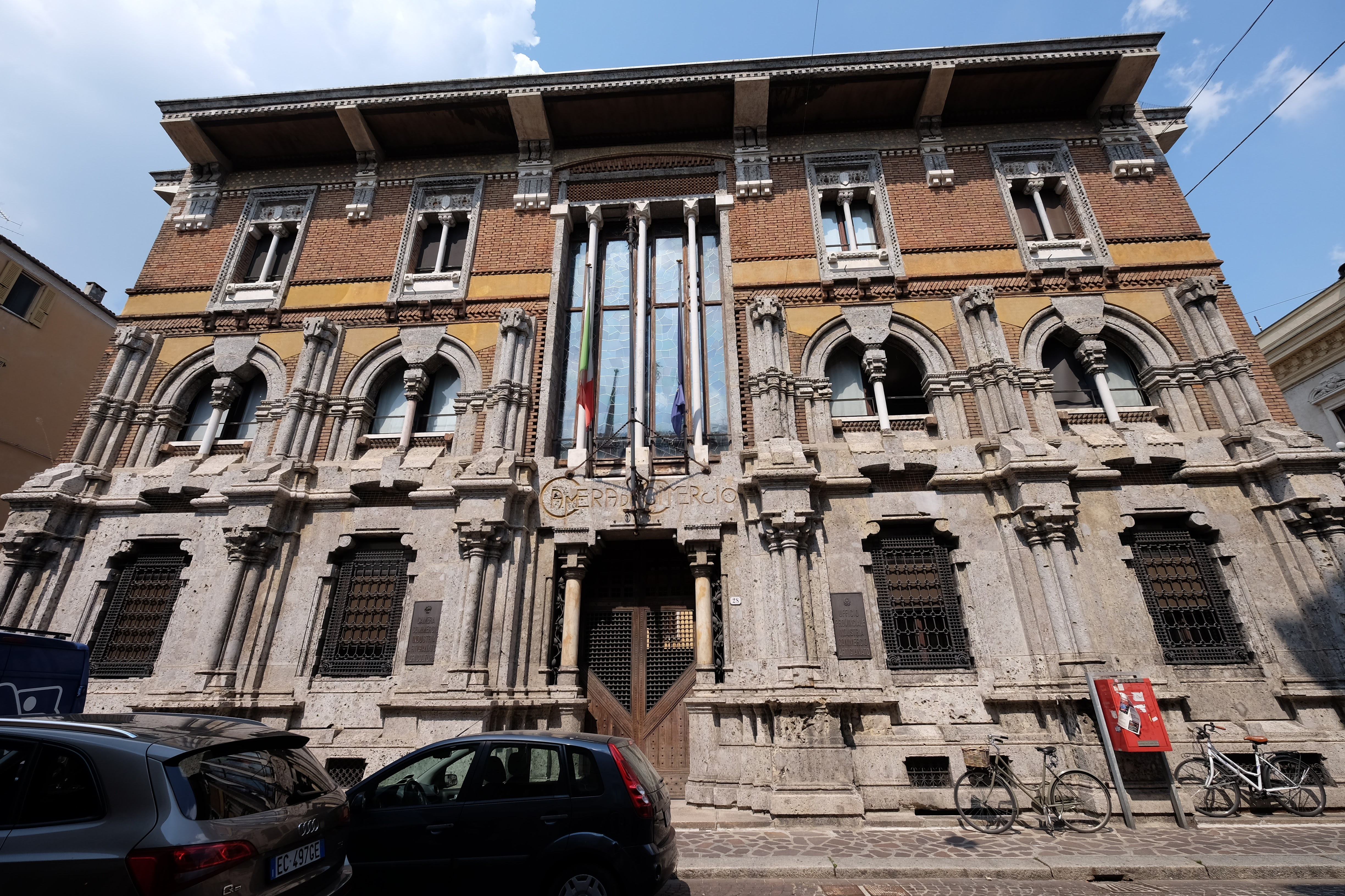 46100 Mantua, Province of Mantua, Italy